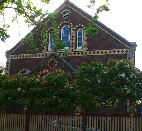 Former church building, 16 Crimea Street, St Kilda, Victoria, Australia 1876 Baptist Church (Particular Baptists) 1922 Masonic Temple (Freemasons) 1995 St Michaels Grammar School